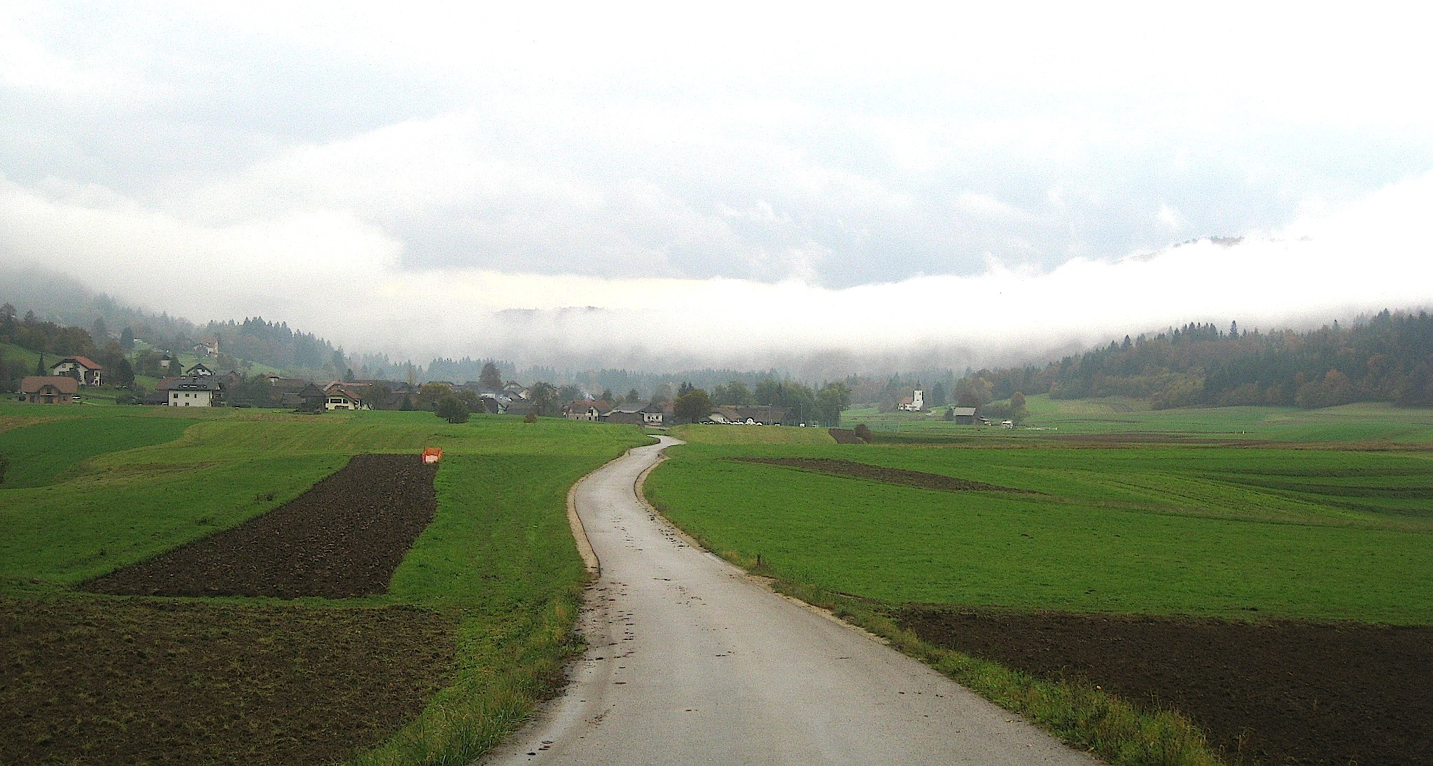 Luče, village near Grosuplje, Slovenia